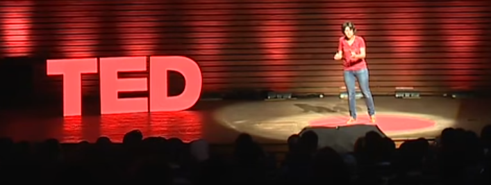 Samar Samir Mezghanni: Faces of the revolution at Ted Talent Search in Tunis in 2012